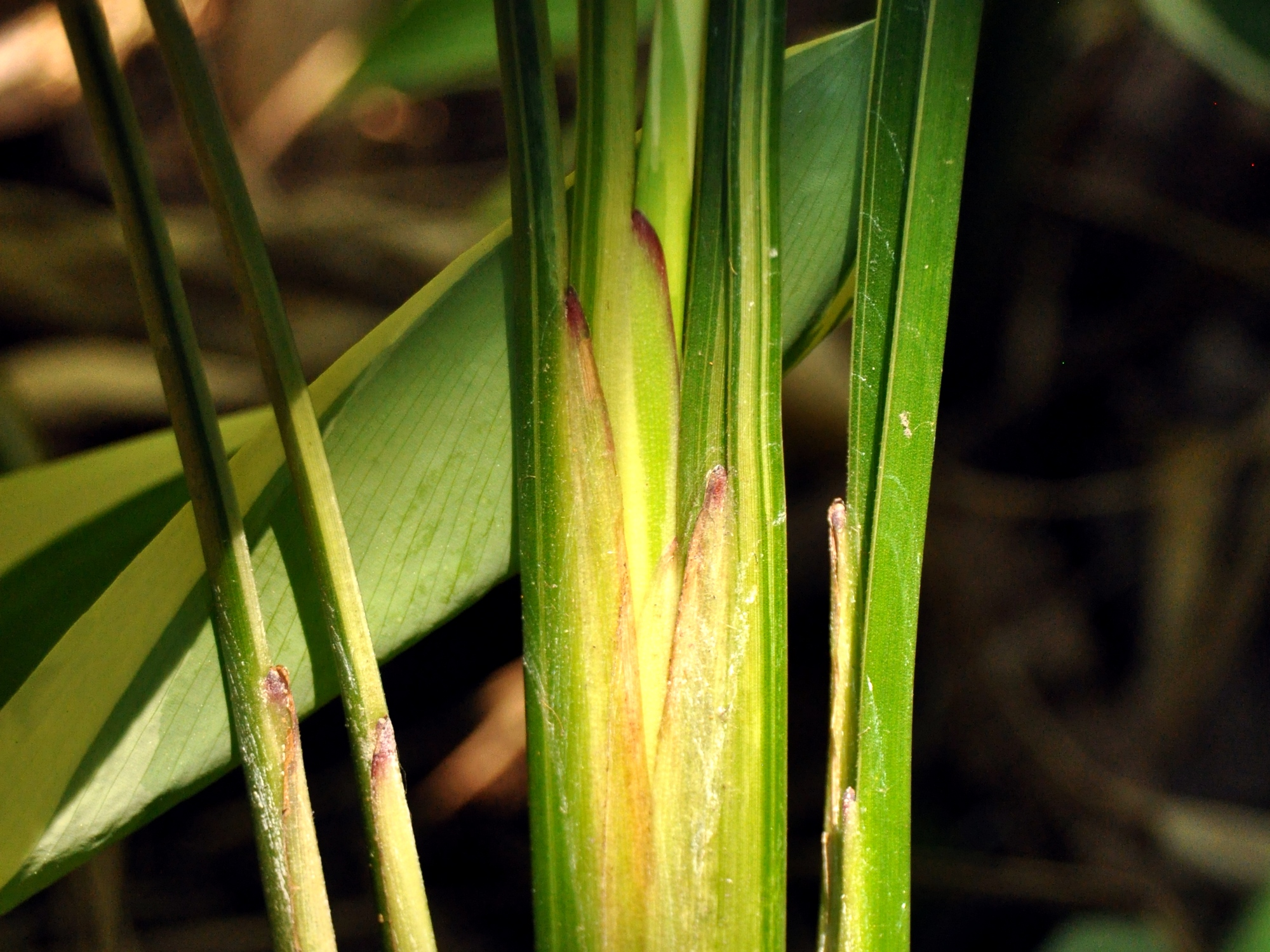 Leaf sheath of Maranta arundinacea. Bogor, West Java, Indonesia.